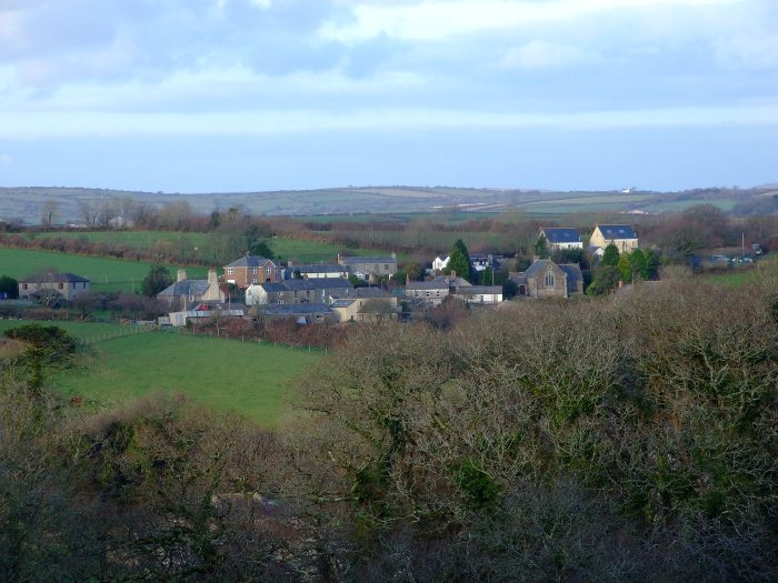 The view of Trevelmond.